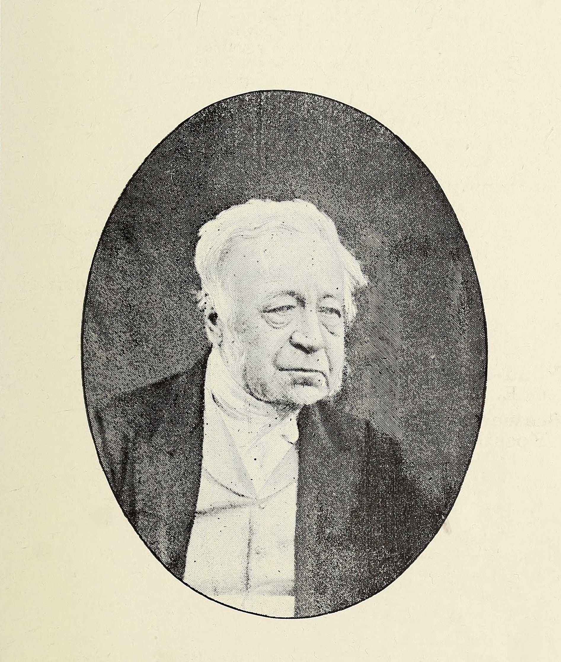 Title: James Charles Dale, British naturalist Year: [1] (s) Authors: Subjects: Publisher: London Text Appearing Before Image: NATURALISTS OF THE DAY. THE BRITISH NATURALIST. Text Appearing After Image: The Late JAMES CHARLES DALE, M.A., F.Z.S., F.C.P.S., ETC.